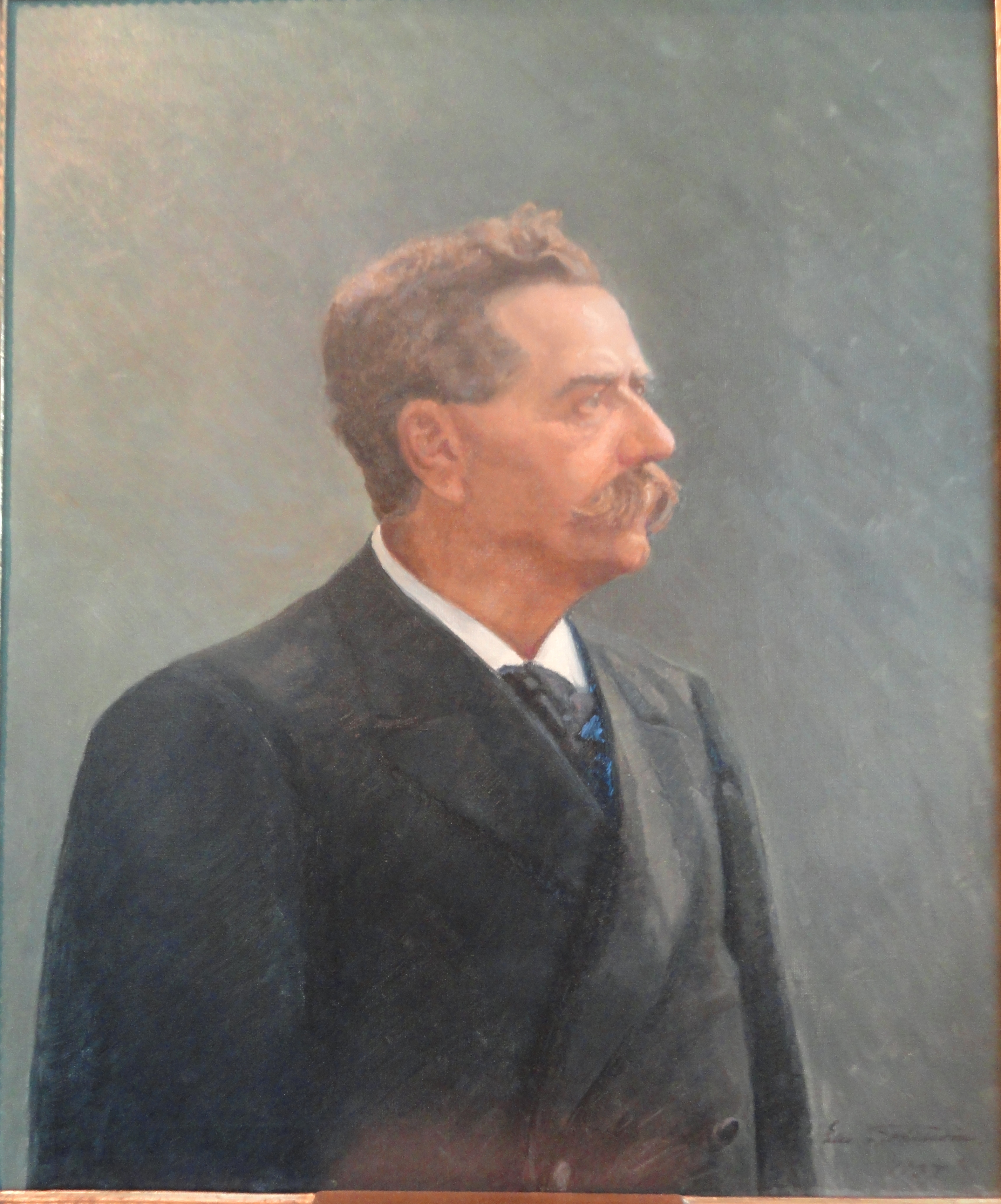 Exhibit in the Arppeanum, Helsinki, Finland. This artwork is in the public domain because the artist died more than 70 years ago.